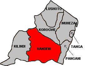 Summary Created by Andrew Coe 16:16, 30 January 2006 Andrewcoe22 276x211 (5036 bytes) (Created by Andrew Coe)